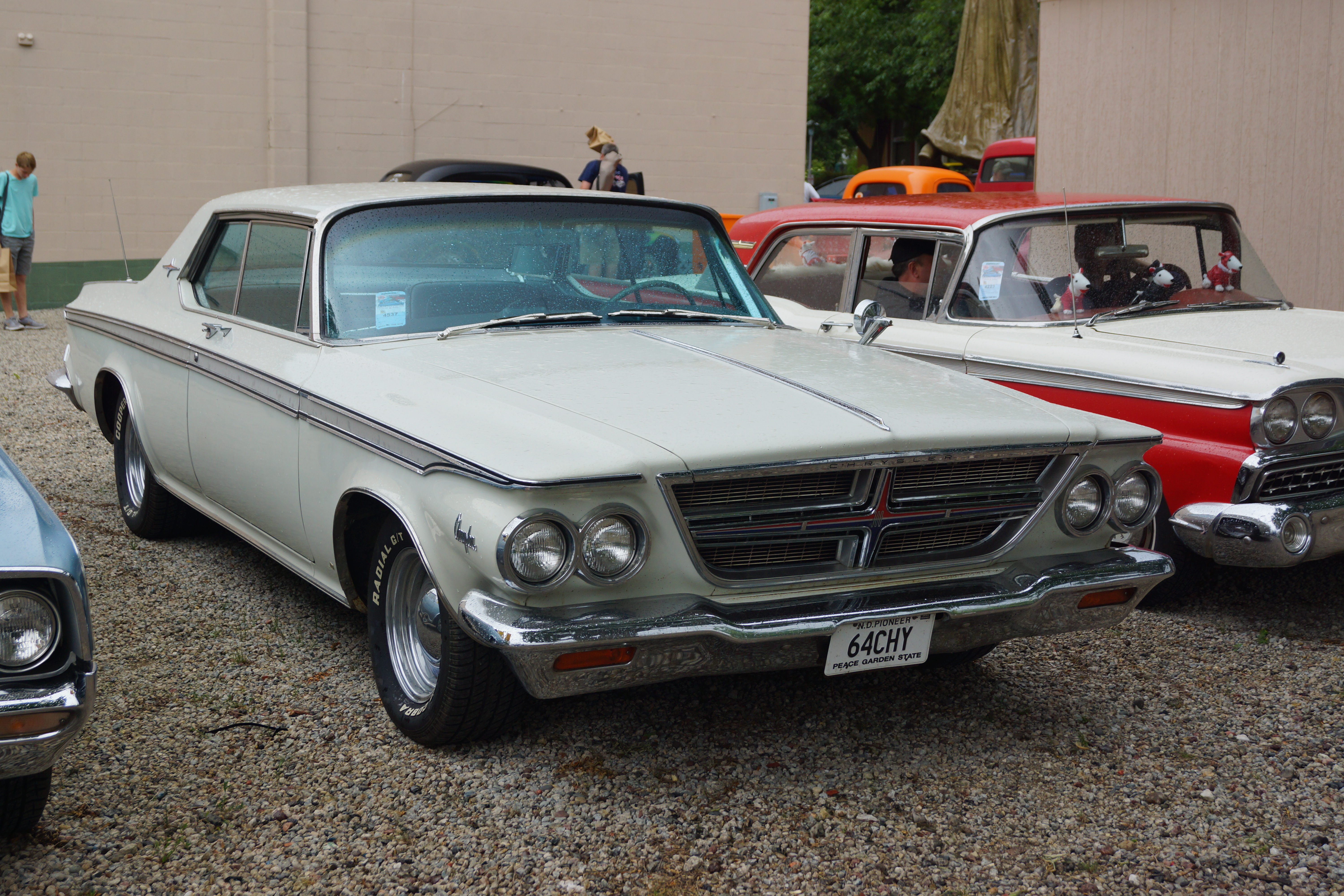 Minnesota Street Rod Association (MSRA) “BACK TO THE 50′s” 44th Annual Car Show June 23-25, 2017 Minnesota State Fairgrounds St. Paul Minnesota Click here for previous "Back to the 50's" pictures.. Click here for more car pictures at my Flickr site. Or here for my Car Crazy Tumblr site. Or on Twitter @DVS1mn.